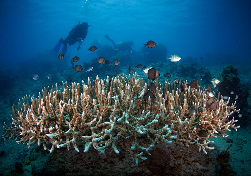 @Conservation International_Panji Laksmana